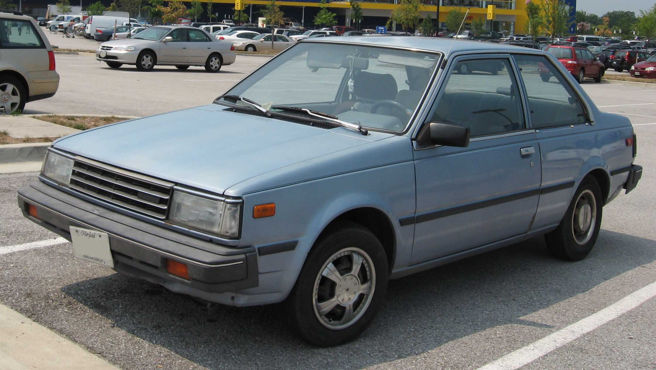 1985-1986 Nissan Sentra photographed in USA.